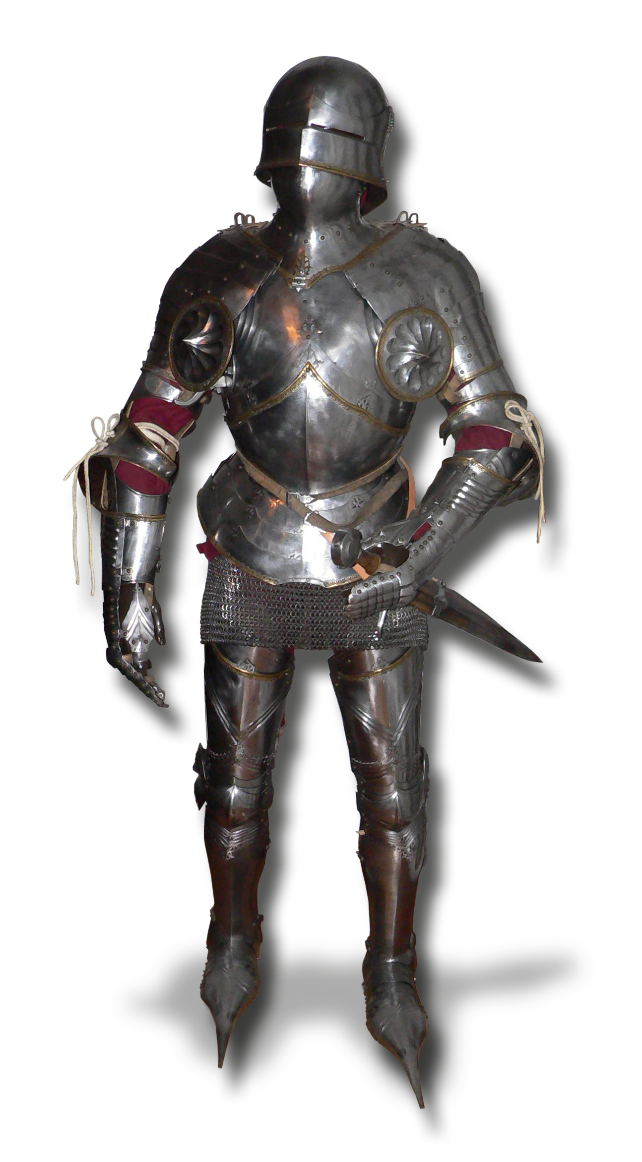 Late medieval armour complete (gothic plate armour).